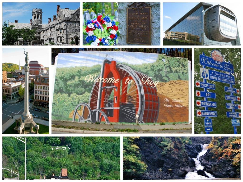 A montage of notable locations in Troy, New York